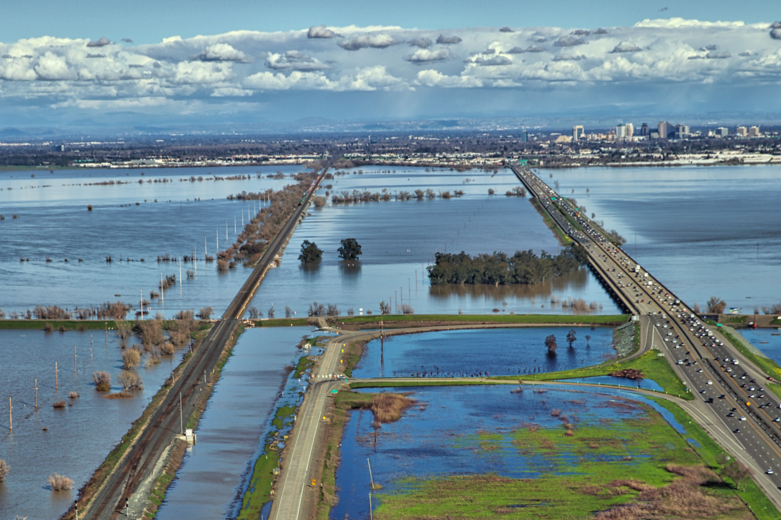 Looking towards the city of Sacramento USFWS Photo/Steve Martarano